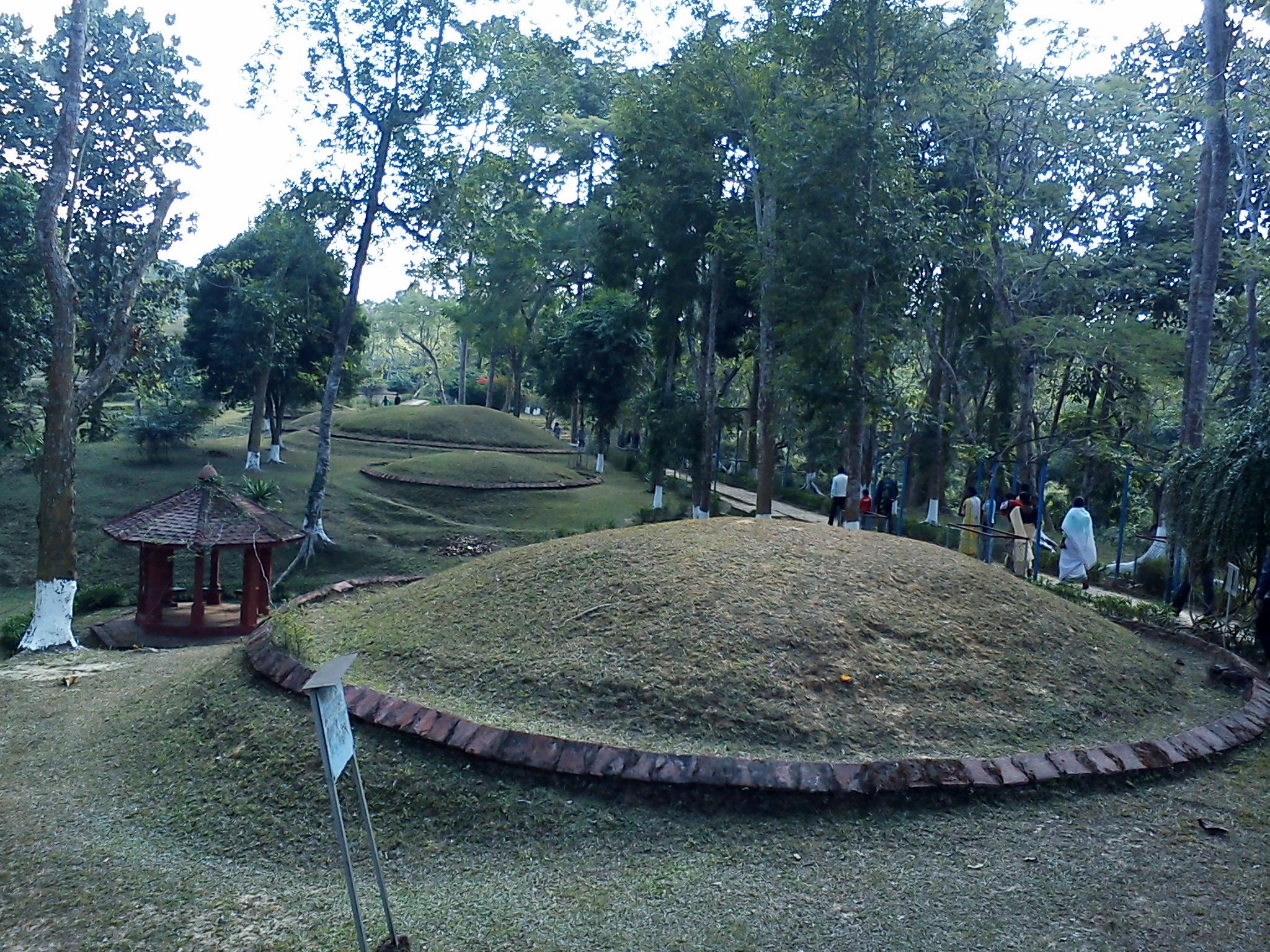 Group of four Maidams, Sibsagar